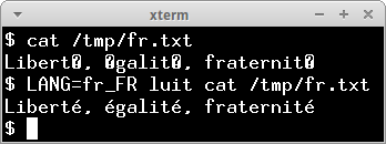 A sample UTF-8 terminal session, showing the effect of luit in rendering ISO 8859-1 accented characters.